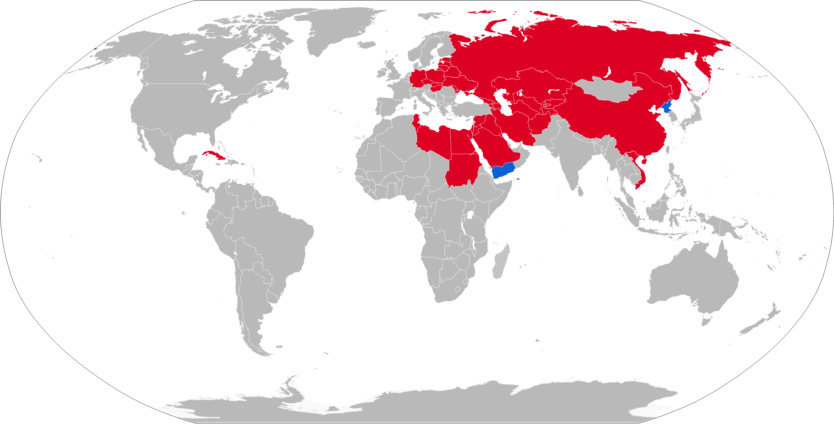 Map of BM-24 operators in blue with former operators in red